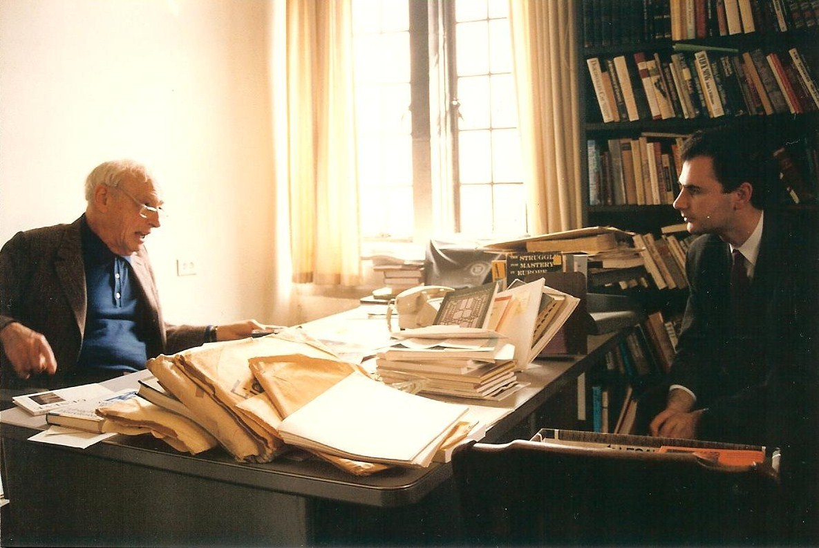 Photograph taken during the Stojanovic's interview with Saul Bellow at the University of Chicago.